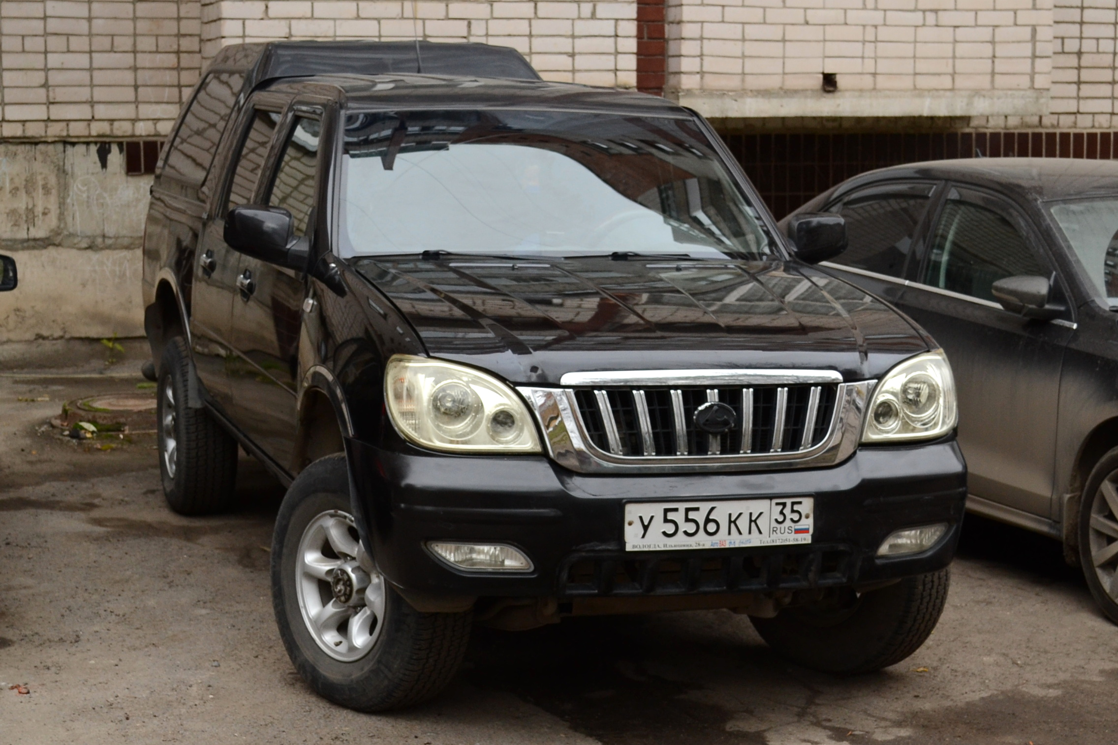 ChangFeng Flying pickup in Russia